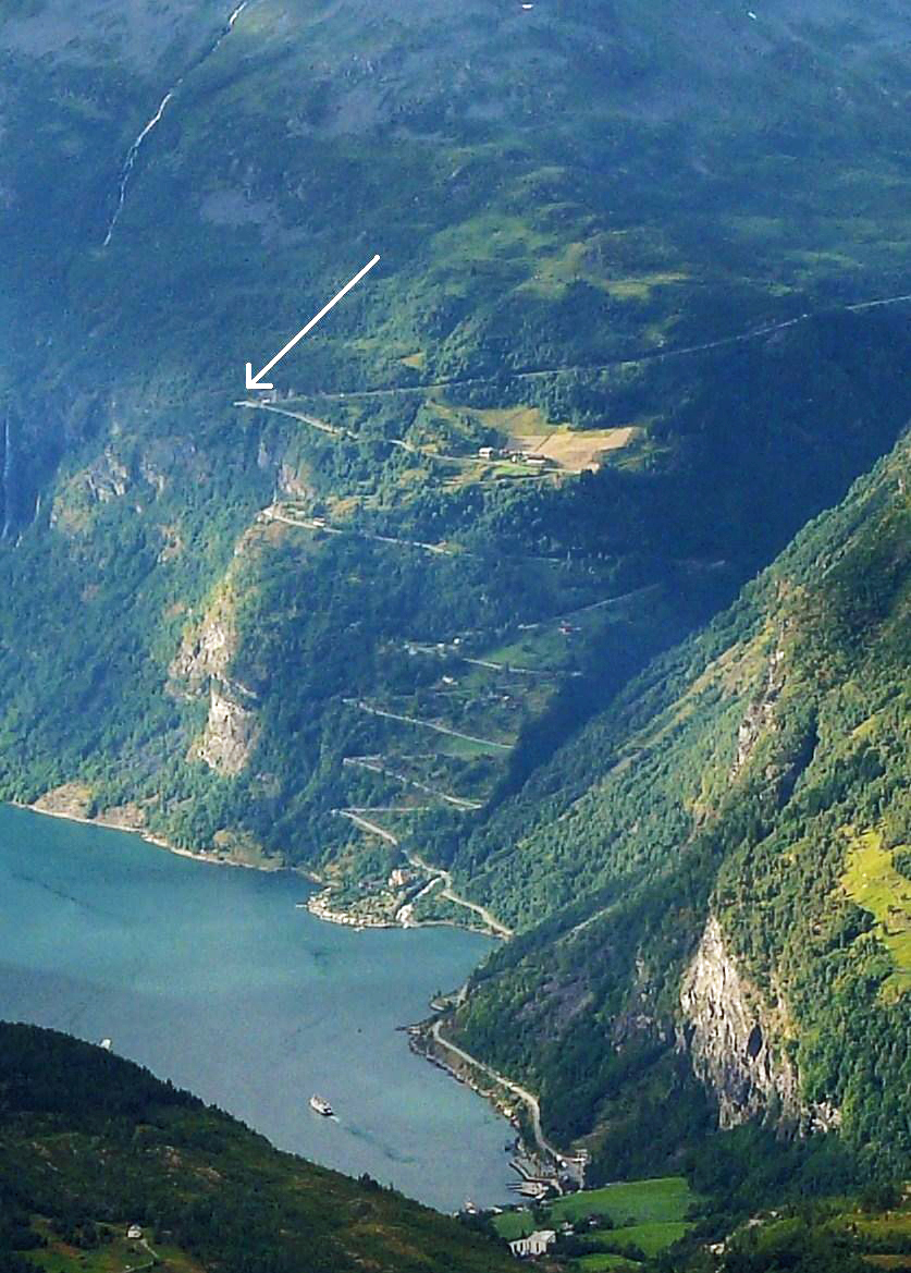 Ørnevegen as seen from Dalsnibba in 2009 August. The arrow is pointing to the location of Ørnesvingen.